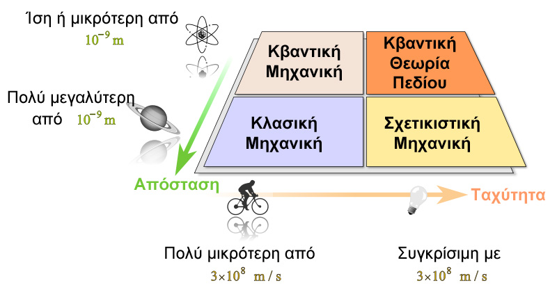 Modern Physics Fields